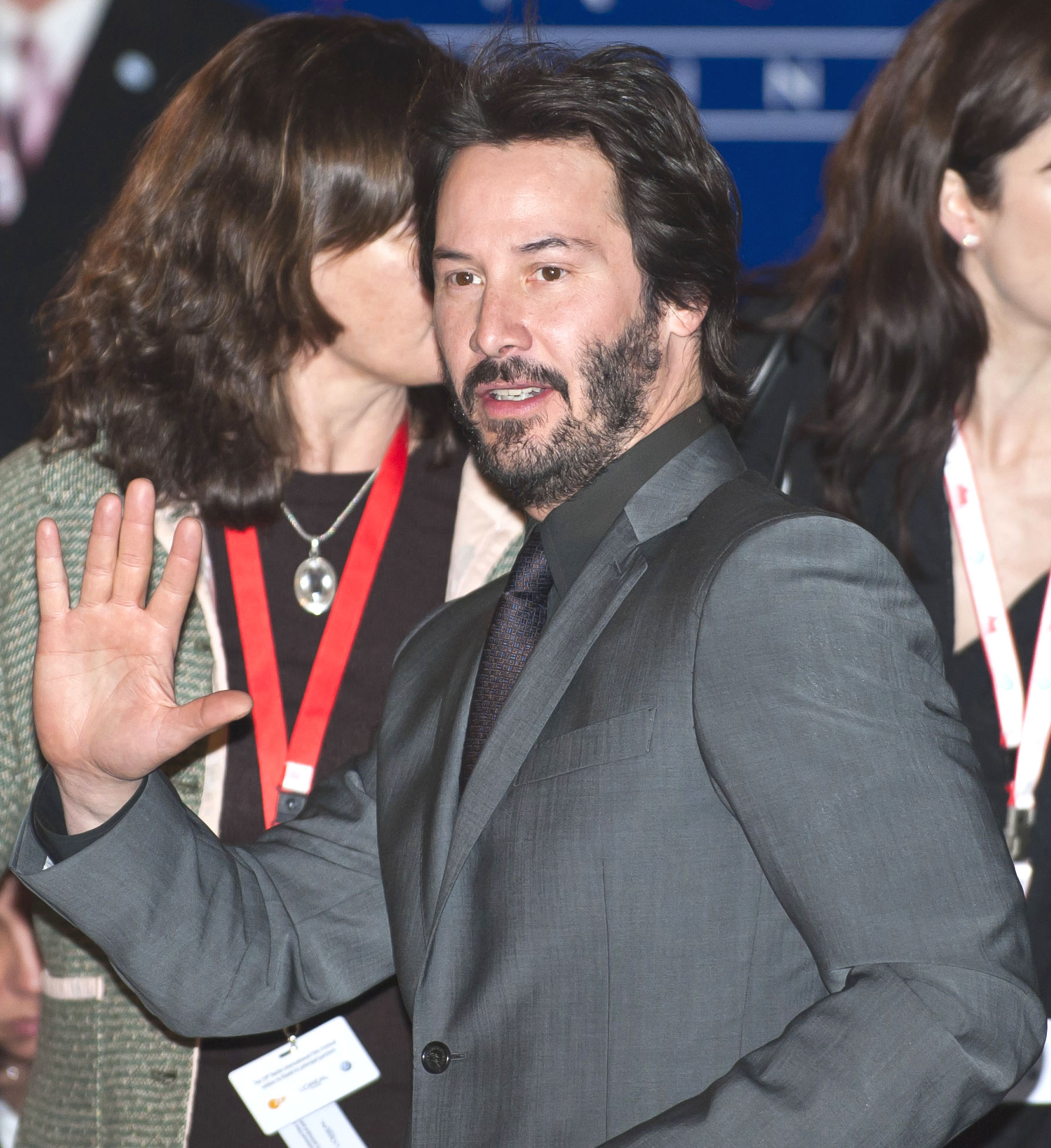 Keanu Reeves leaving the press conference for "The Private Lives of Pippa Lee", Berlinale 2009